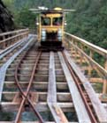 TVA's flume line on the Ocoee River in Polk County, Tennessee, USA.